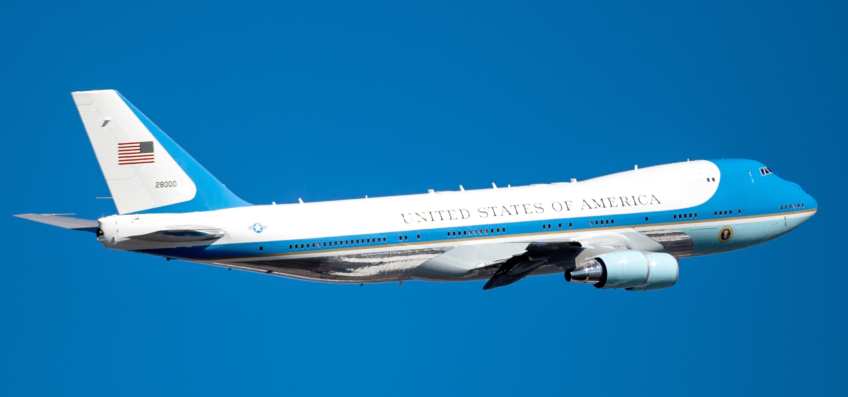 On February 17, 2017, Boeing South Carolina in North Charleston, SC rolled out the first 787-10. US President Donald Trump (POTUS) was in attendance at the ceremony. The 787-10 will be built exclusively in North Charleston, SC. Photo by Ryan Johnson